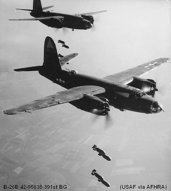 Martin B-26B-50-MA Marauder Serial 42-95835 of the 391st Bomb Group, based at RAF Matching, England.